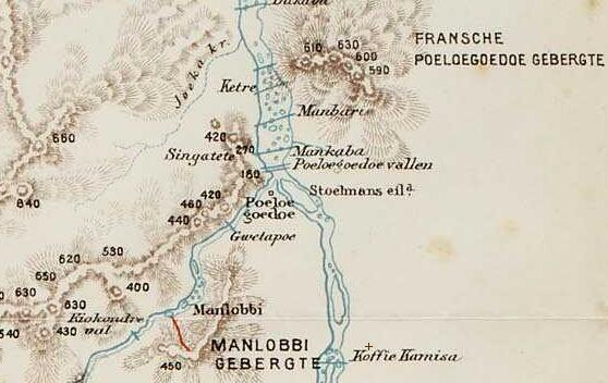 detail Stoelmanseiland, 1905 Publisher [Leiden]: Brill Kaart behoort bij het boek: Verslag der Tapanahoni-expeditie / door A. Franssen Herderschee. - Overdruk uit Tijdschrift van het Koninklijk Nederlandsch aardrijkskundig genootschap ; 2e serie, dl. XXII(1905)2. - Beide aanwezig in de Bibliotheek Pub. year 1905